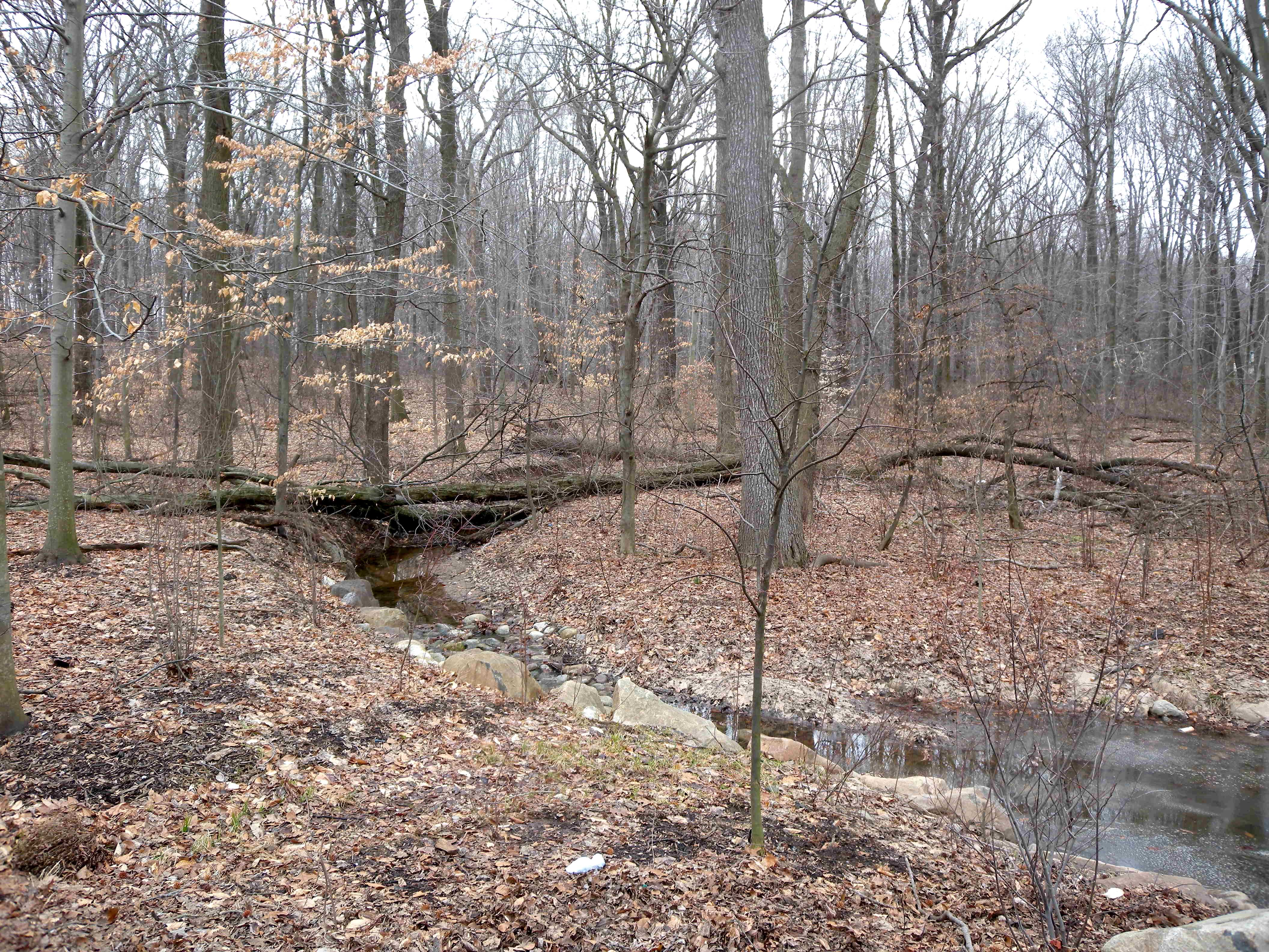 Looking south along Sandy Creek from Drumgoole on a cloudy afternoon.